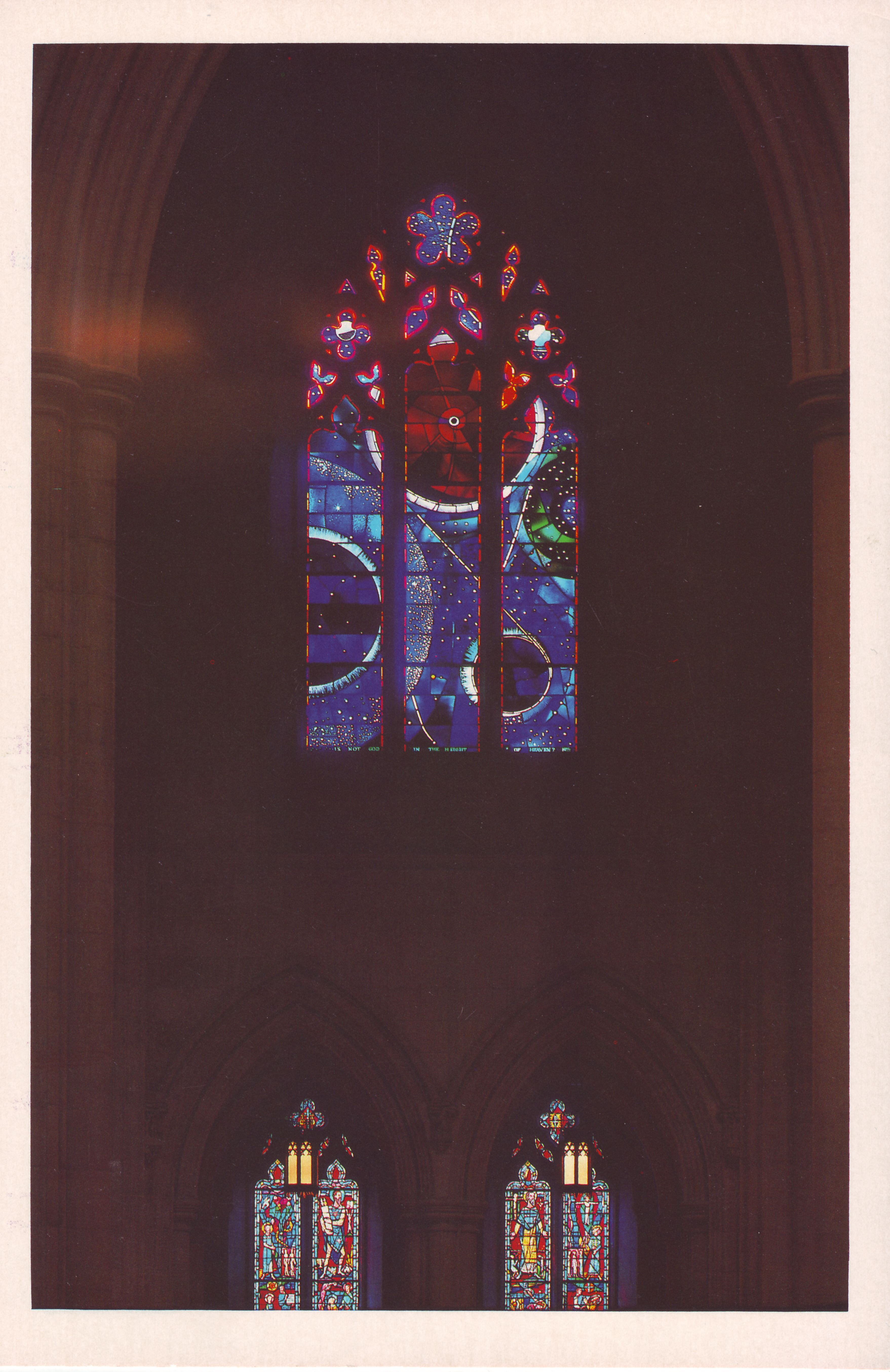 The Space Window in the Washington National Cathedral, designed by Rodney Winfield